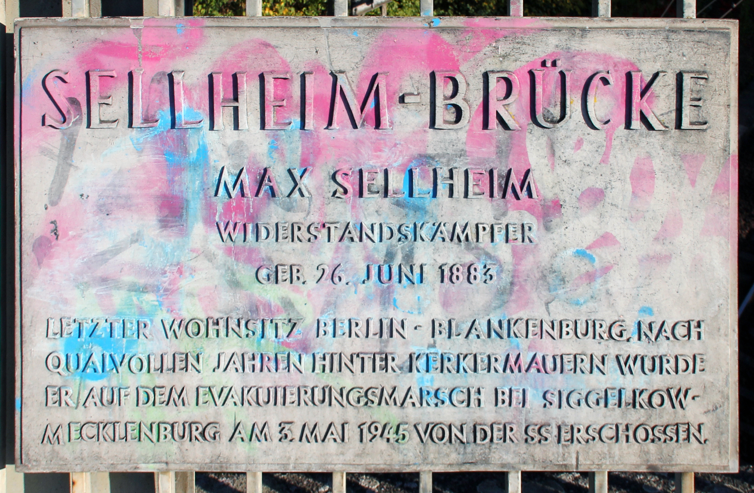 Memorial plaque, Max Sellheim, Sellheimbrücke, Berlin-Blankenburg, Germany